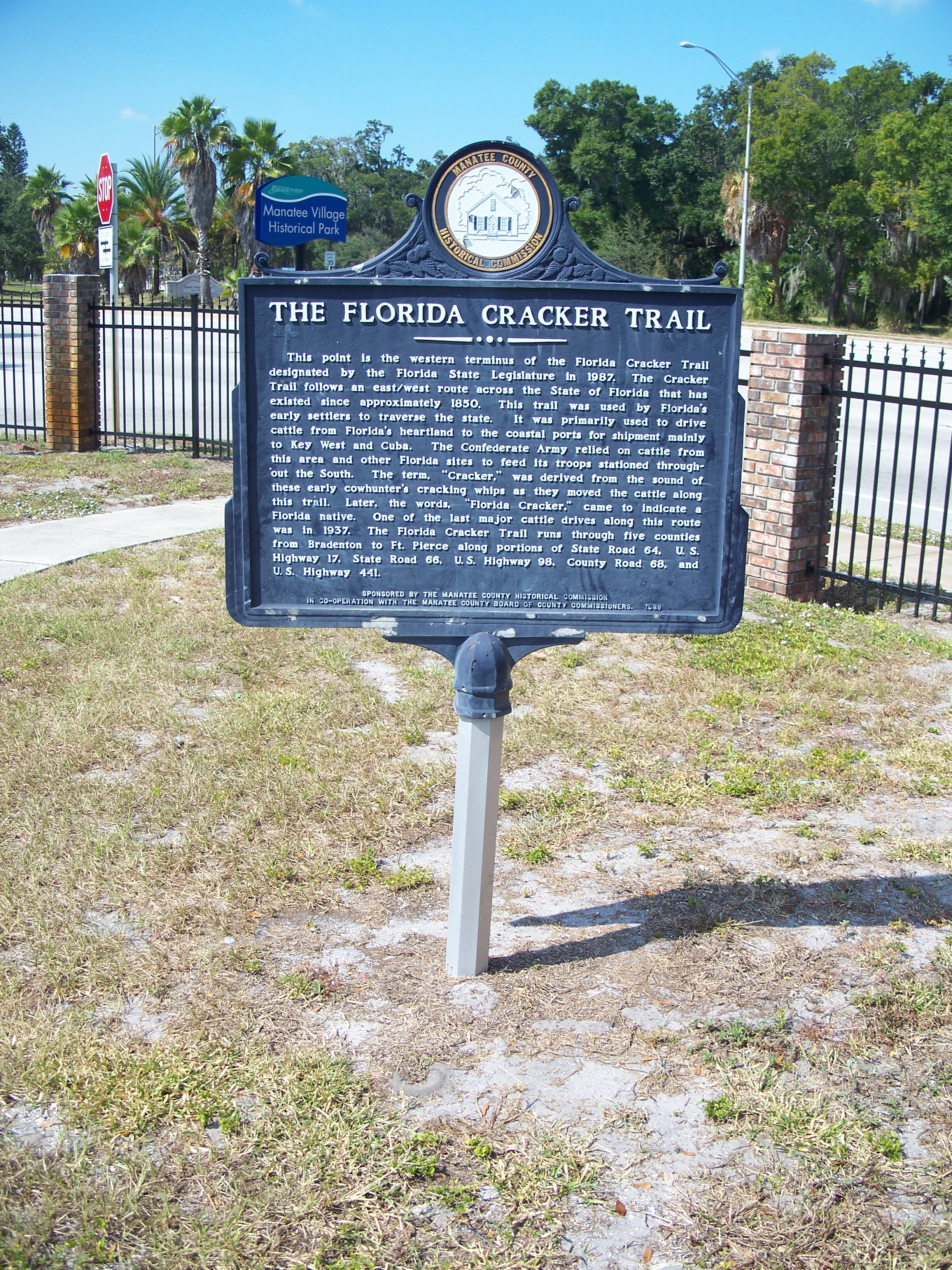 Bradenton, Florida: Manatee Village Historical Park: Historical marker about the Florida Cracker Trail